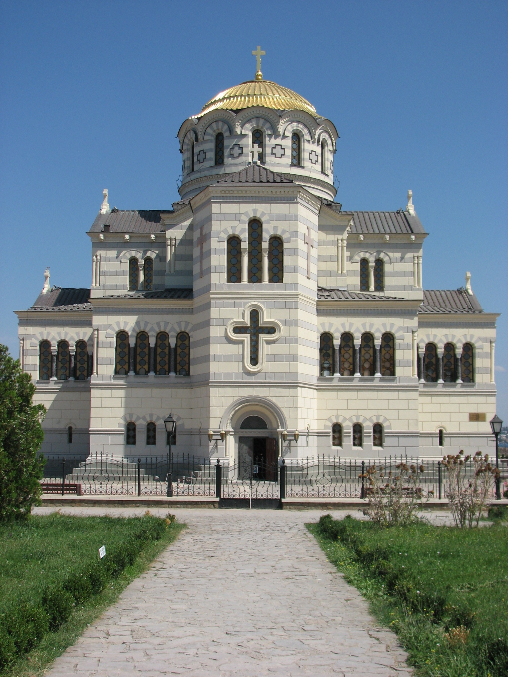 St. Volodymyr's Cathedral, Chersones